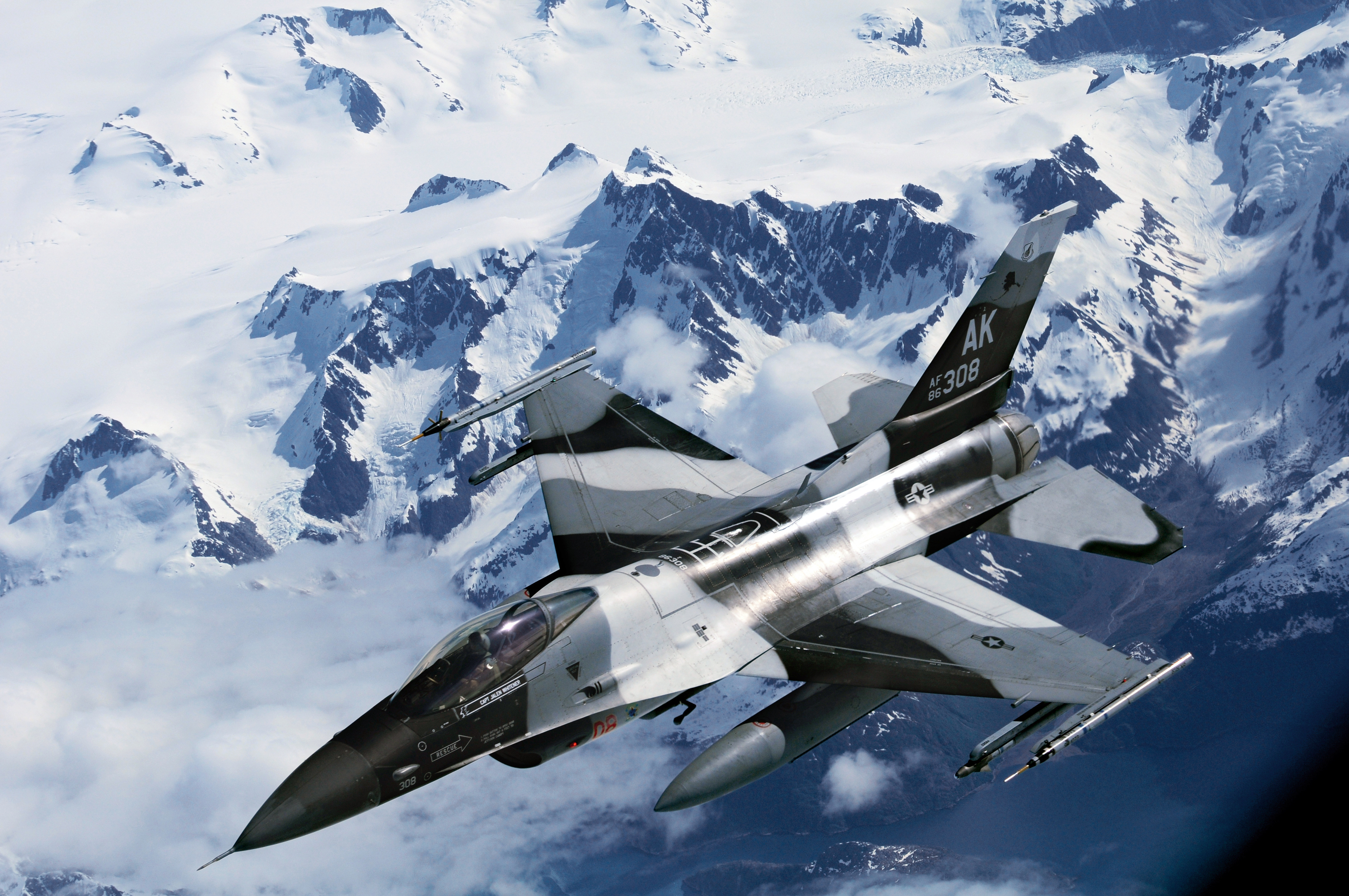 An F-16C Falcon from the 18th Aggressor Squadron, Eielson Air Force Base, Alaska, flies over a mountain range in Alaska during an excercise evolution that is a part of Northern Edge 2011.